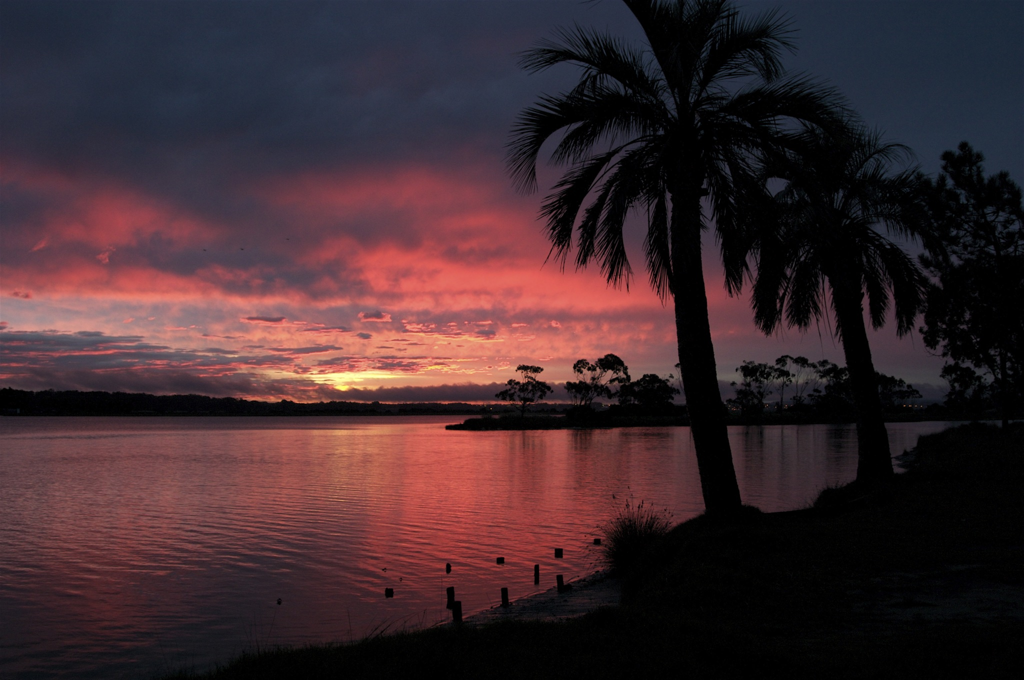 Maldonado City, Uruguay, view from la Barra.